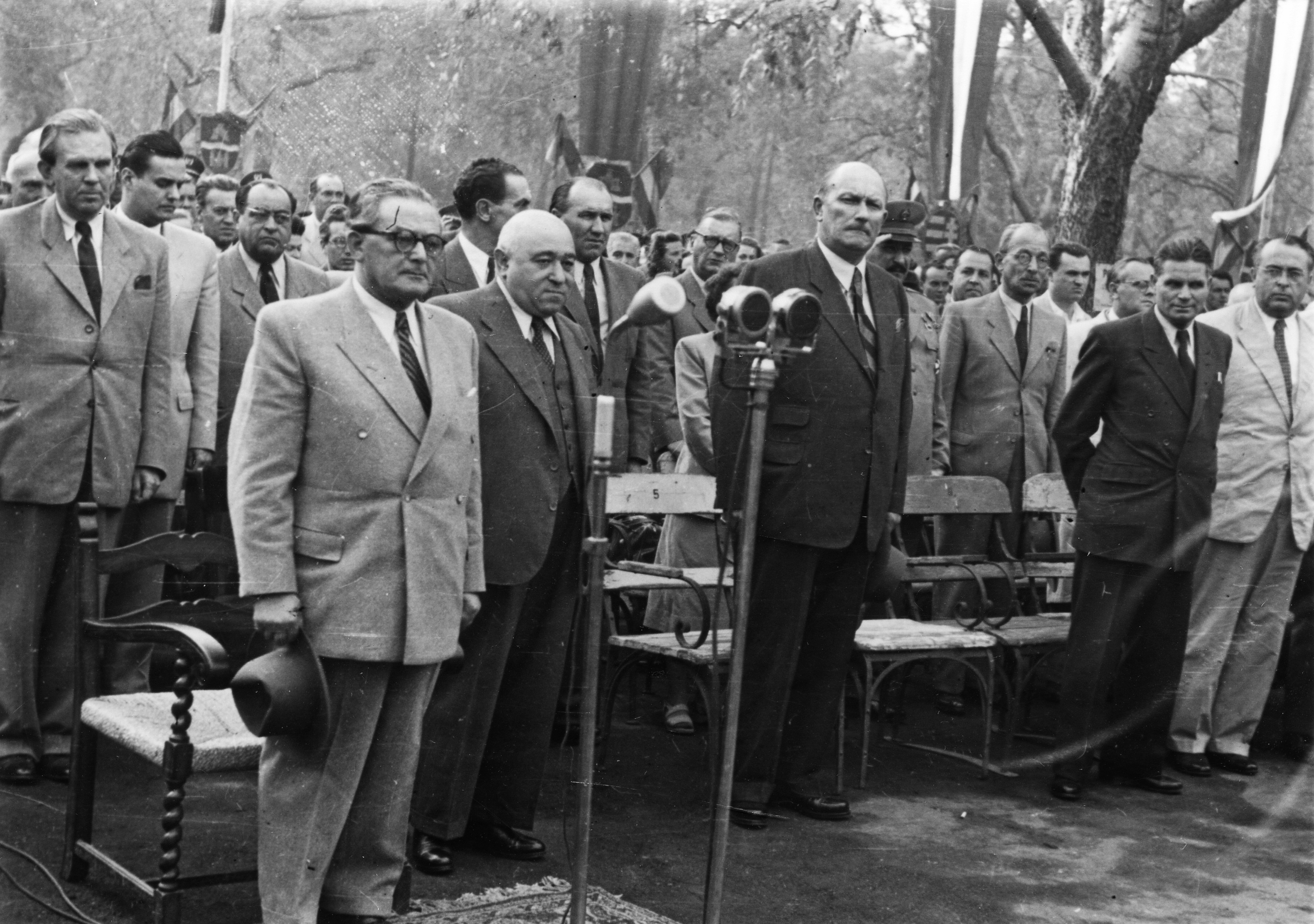 Leaders of Hungary in June 1948 at opening of Budapest International Festival, first row, from left to right: Ernő Mihályfi, Árpád Szakasits, Mátyás Rákosi, Lajos Dinnyés, István Dobi and Zoltán Vas